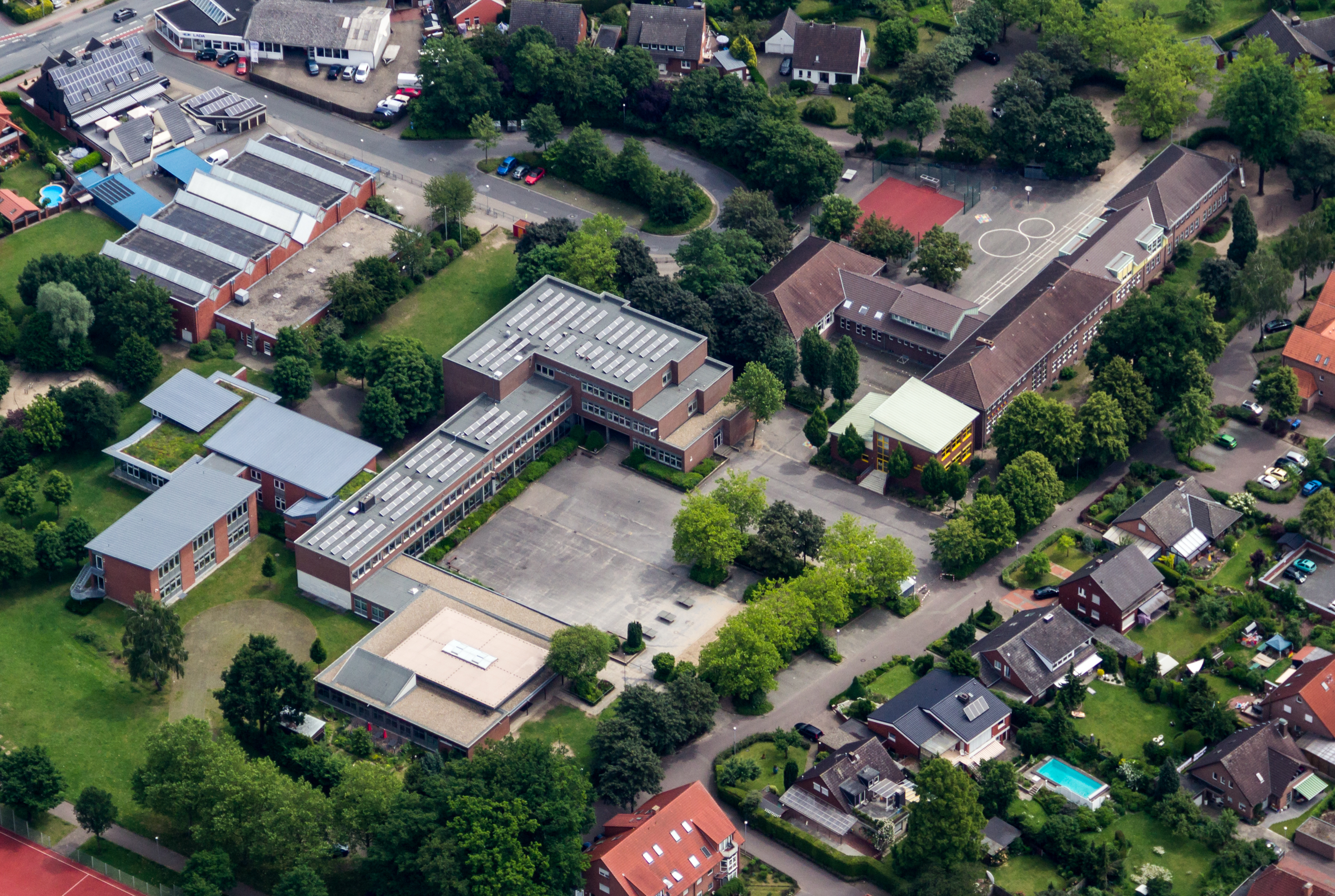 Anne Frank Secondary School, Greven, North Rhine-Westphalia, Germany